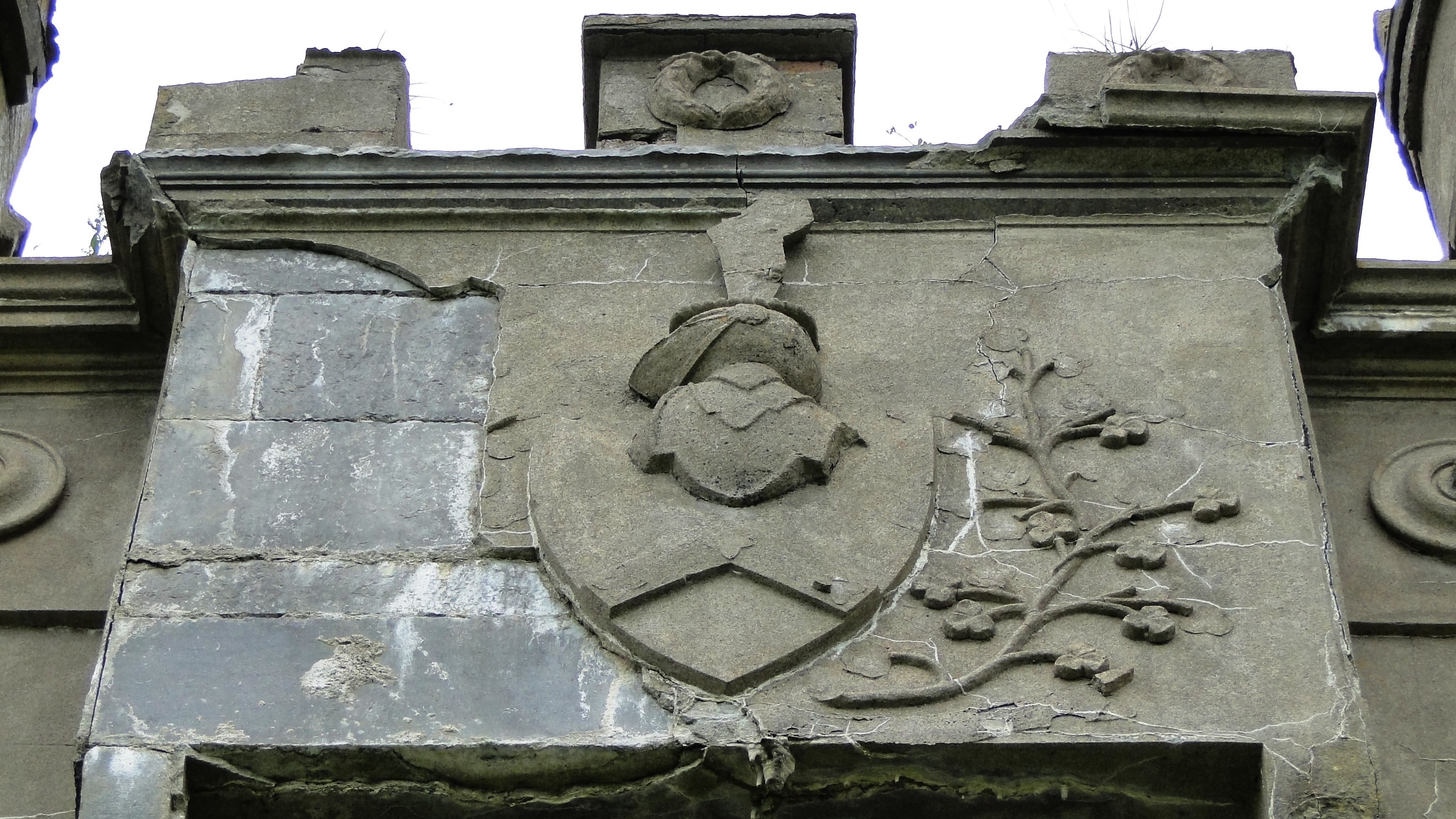 Architectural detail of the ruined Clifden Castle